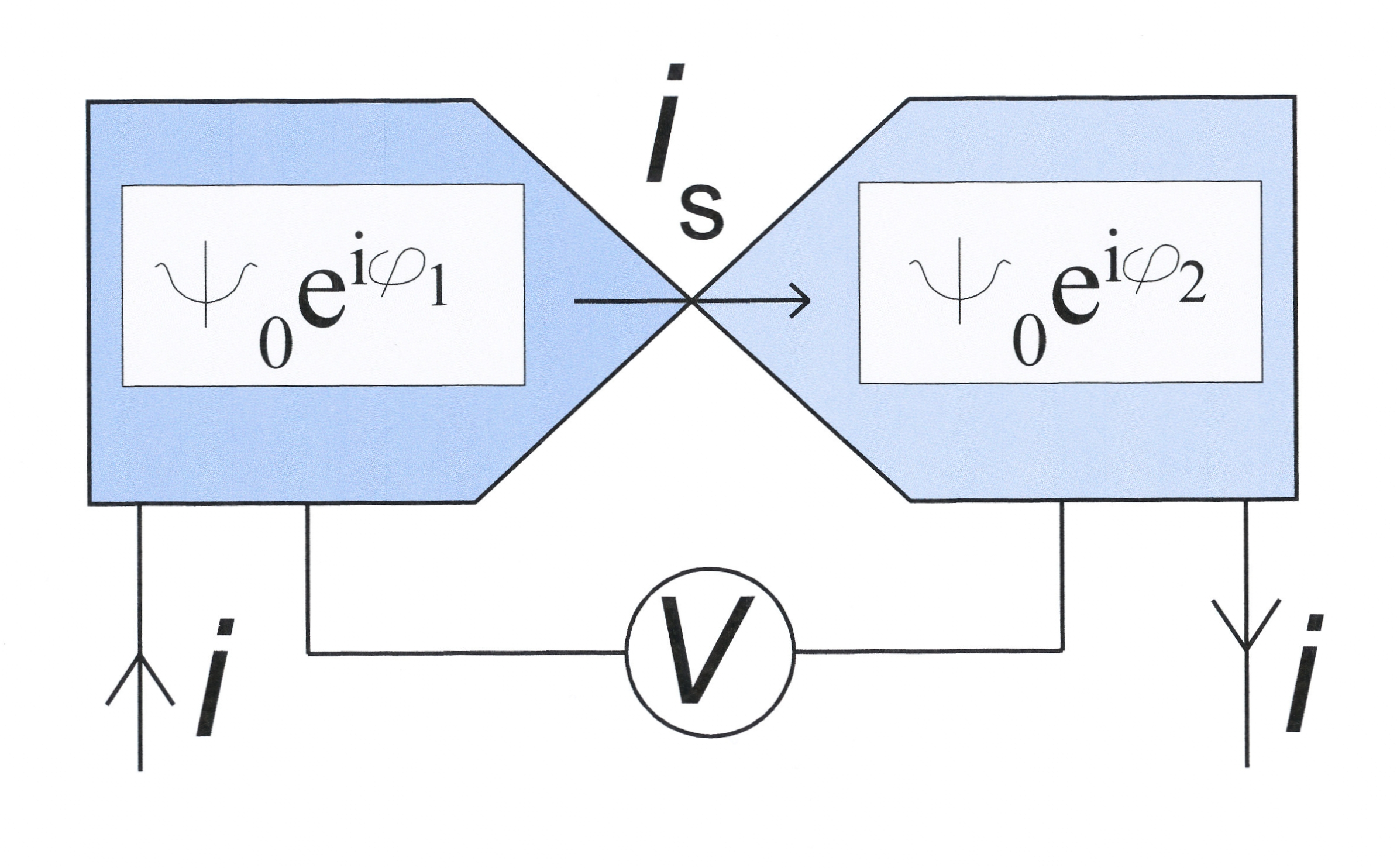 Point Contact